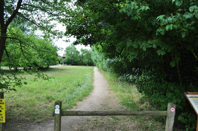 Stow Bedon Railway Station, near to Stow Bedon, Norfolk, Great Britain. A view of the former site of Stow Bedon railway station on the Thetford to Swaffham line, closing in 1964.